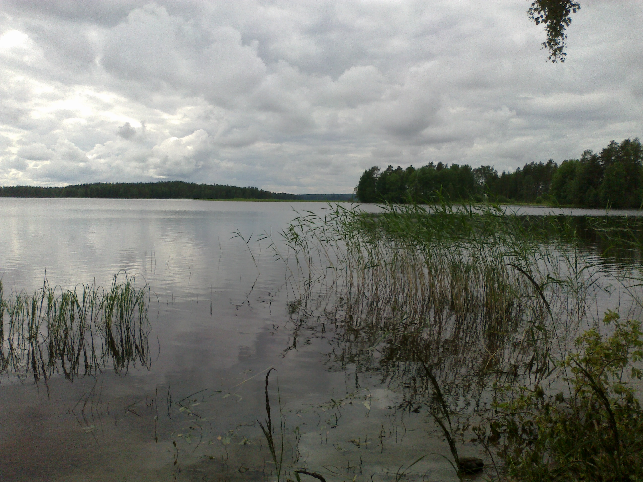 Väänälänranta is located close to the Lake Onkivesi (front).